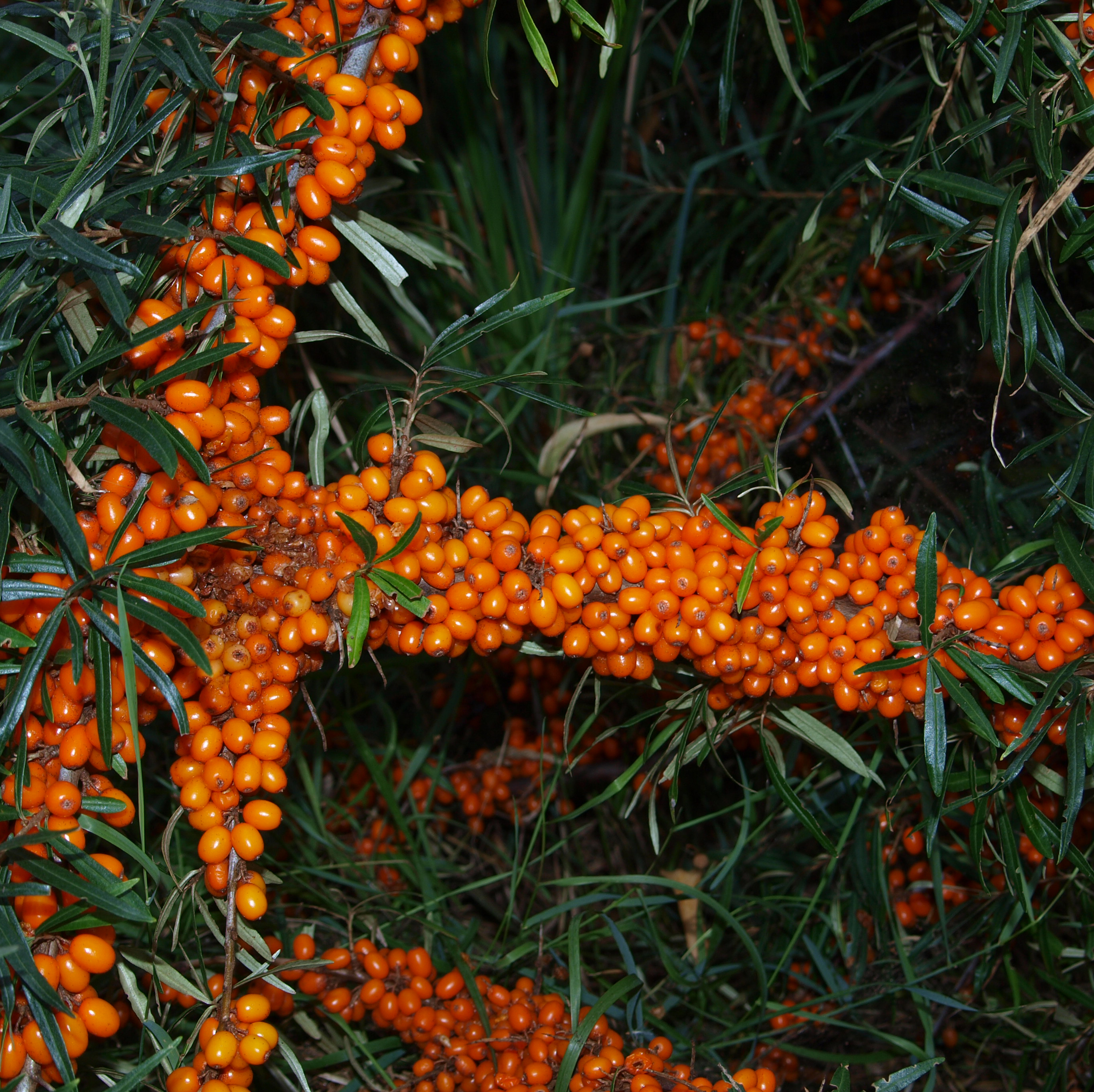 buckthorn berries